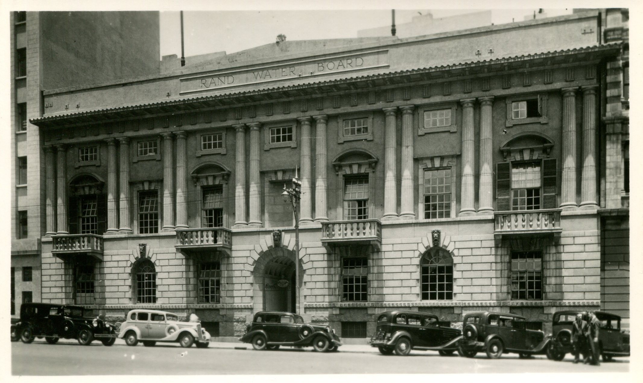 The Rand Water Building was constructed in 1940s. It is located just south of Beyers Naude Square at the historic heart of the City. This is one of the pictures form the Joburgpedia and JHF project.